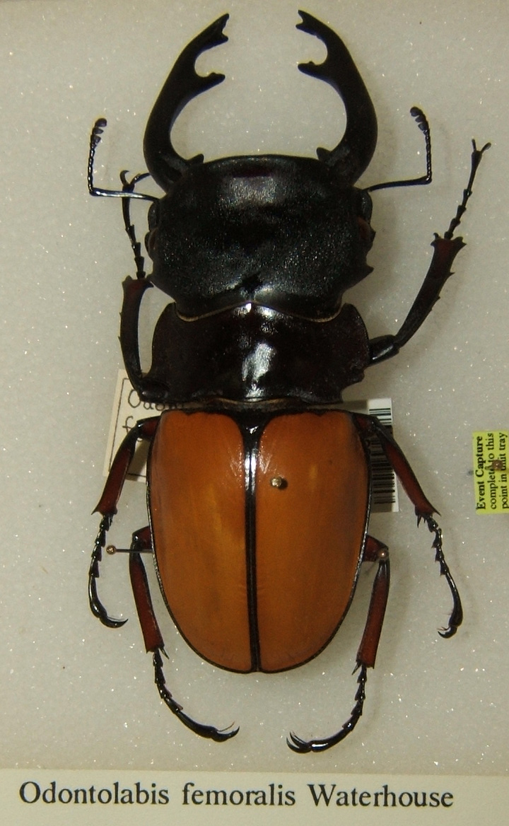 Odontolabis femoralis adult taken by Shawn Hanrahan at the Texas A&M University Insect Collection in College Station, Texas.